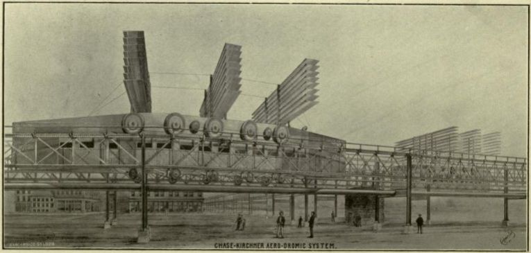 1894 print showing the hypothetical appearance of the never-realized Chase-Kirchner aerodromic railway, from the GN Chase and HW Kirchner book: "The coming railroad. The Chase-Kirchner aerodromic system of transportation", same year.